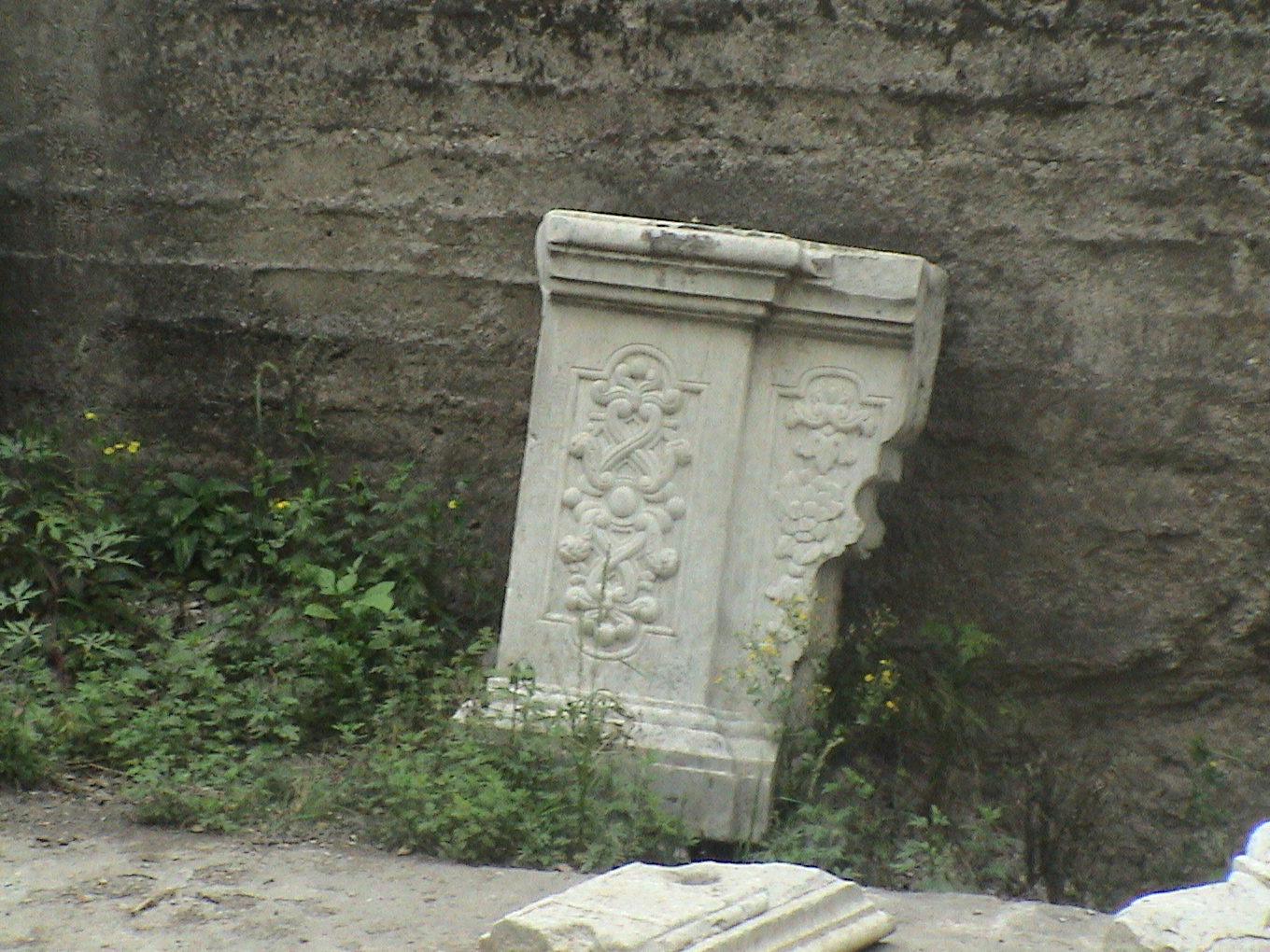 Ruins of Xiyang Lou (Western mansions). On the grounds of the Yunamingyuan (Old Summer Palace) — in Beijing. 2002-05-11 08:14:00 UTC